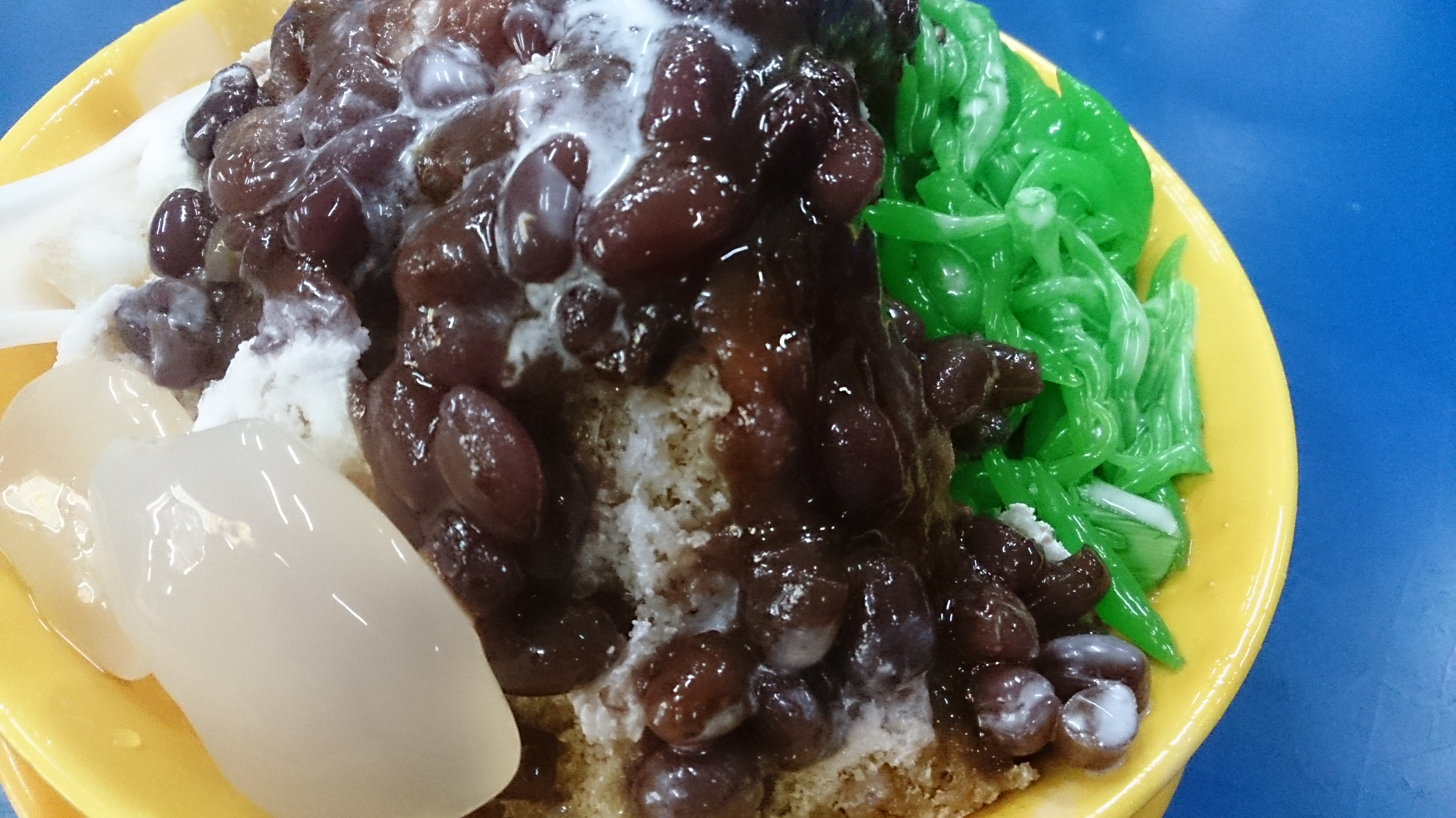 Delicious dessert commonly found at hawker centers in Singapore